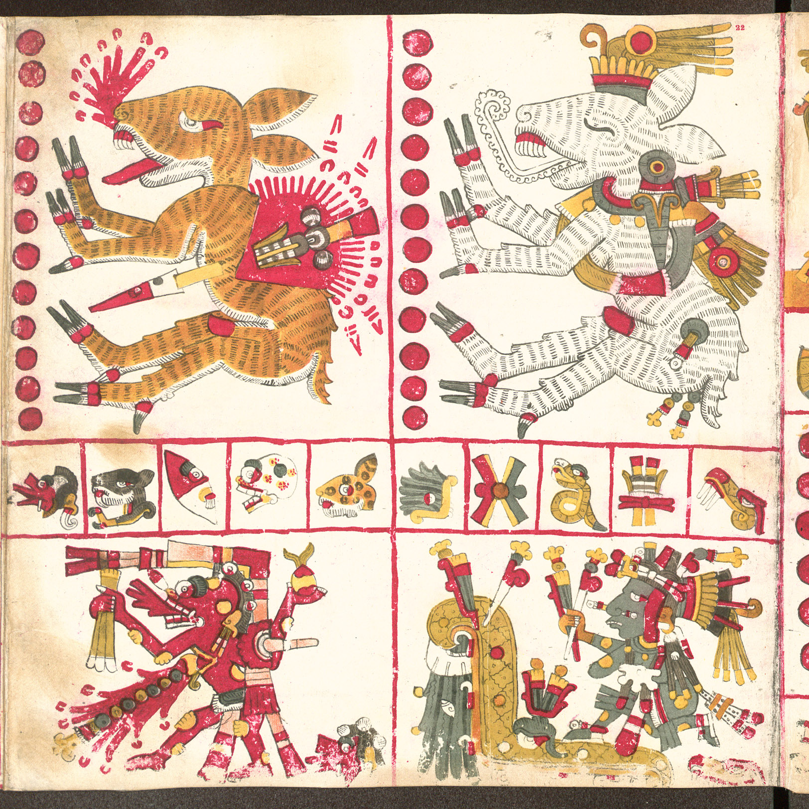 Page 22 of the Codex Borgia.